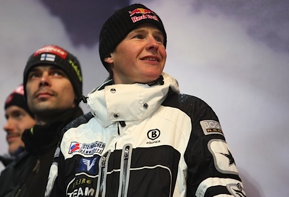 Andreas Goldberger during Adam's Bull's Eye on 26 March, 2011 in Zakopane.